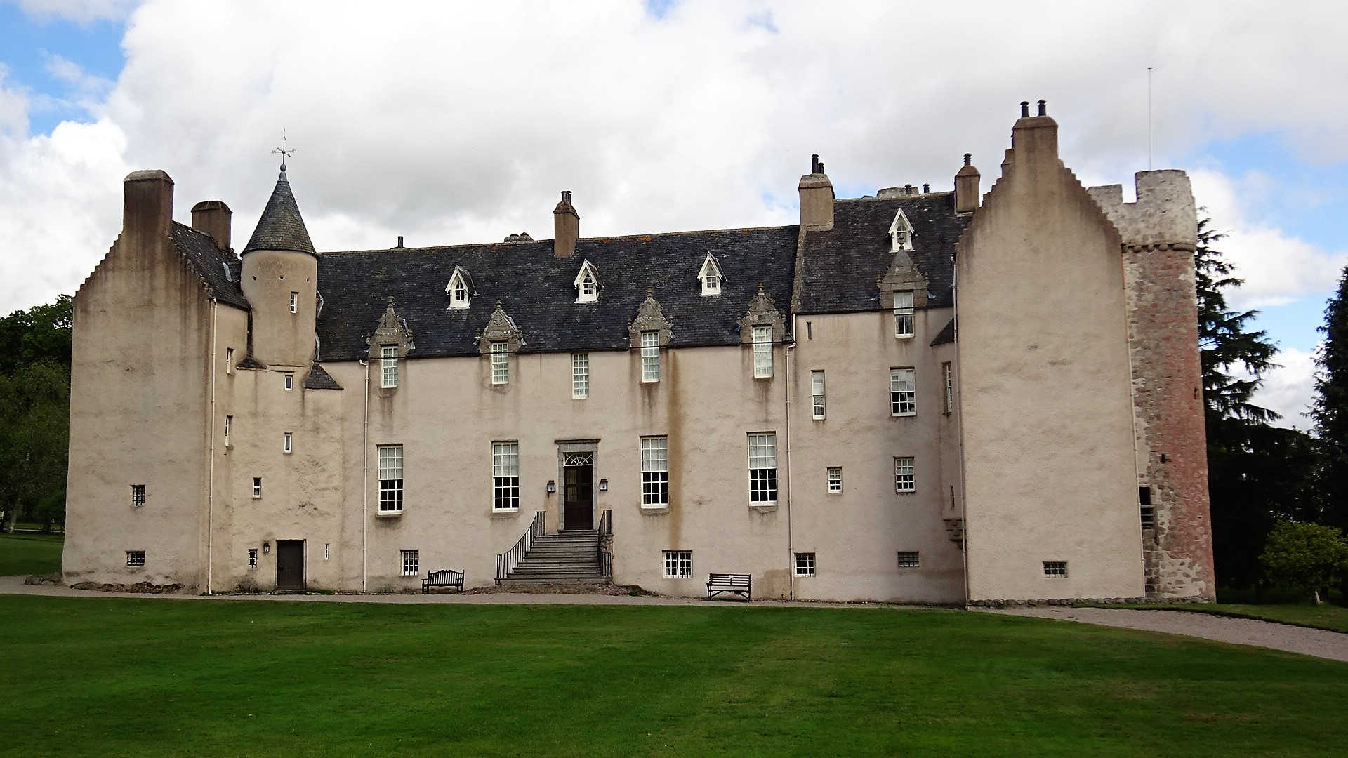 Drum Castle frontage , Drumoak, Banchory, Aberdeenshire. Mansion house frontage.